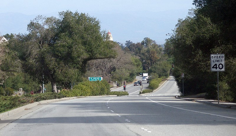 The view from eastbound Sand Hill Road towards Stanford University in Menlo Park. Most of the office complexes on Sand Hill Road are not visible from the roadway; they are separated from the road by thick brush and many large trees. Stanford's Hoover Tower is visible in the background.